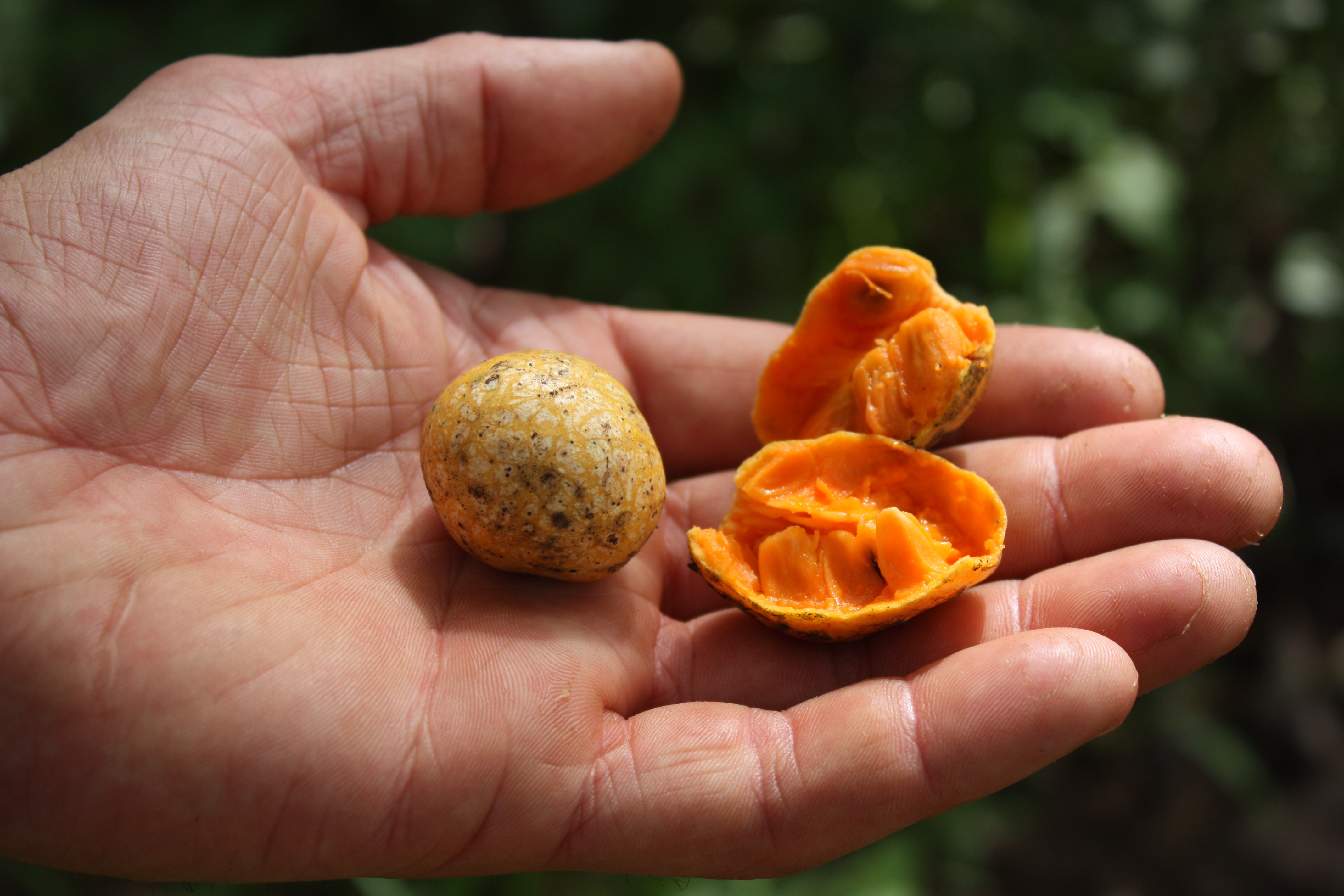 fruits of Annona senegalensis, SW Burkina Faso